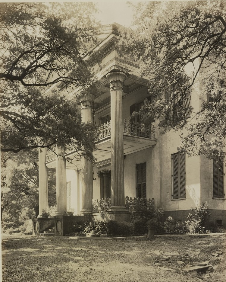 Title Stanton Hall, Natchez, Adams County, Mississippi Contributor Names Johnston, Frances Benjamin, 1864-1952, photographer Created / Published 1938. Subject Headings - United States--Mississippi--Adams County--Natchez - Hand railings. - Porticoes (Porches). - Entablatures. - Capitals (Columns). - Houses. - Mississippi--Adams County--Natchez Format Headings Photographic prints. Notes - Title from photographer's inventory. - Built by Frederick Stanton, a replica of his ancestral home in Ireland. Elaborate mantels, mirrors, and chandeliers brought from France and Spain in a chartered ship. During war, Union soldiers occupied wing. - Building/structure dates: 1851. - Corresponding Carnegie Survey of the Architecture of the South neg. no. 1072. Library has no record of having this neg. - Another print available in LOT 12677. - Inscribed on verso: Job #253054, August 1946. - Related names: Pilgrimage Garden Club. - Gift; Anne E. Peterson; 2011; (DLC/PP-2011:206) - Forms part of: Carnegie Survey of the Architecture of the South (Library of Congress). Medium 1 photographic print. Call Number/Physical Location LOT 11838-1 [item] [P&P] Repository Library of Congress Prints and Photographs Division Washington, D.C. 20540 USA Digital Id ppmsca 32378 //hdl.loc.gov/loc.pnp/ppmsca.32378 Control Number csas201207206 Reproduction Number LC-DIG-ppmsca-32378 (digital file from photograph) Rights Advisory No known restrictions on publication. Online Format image Description 1 photographic print.